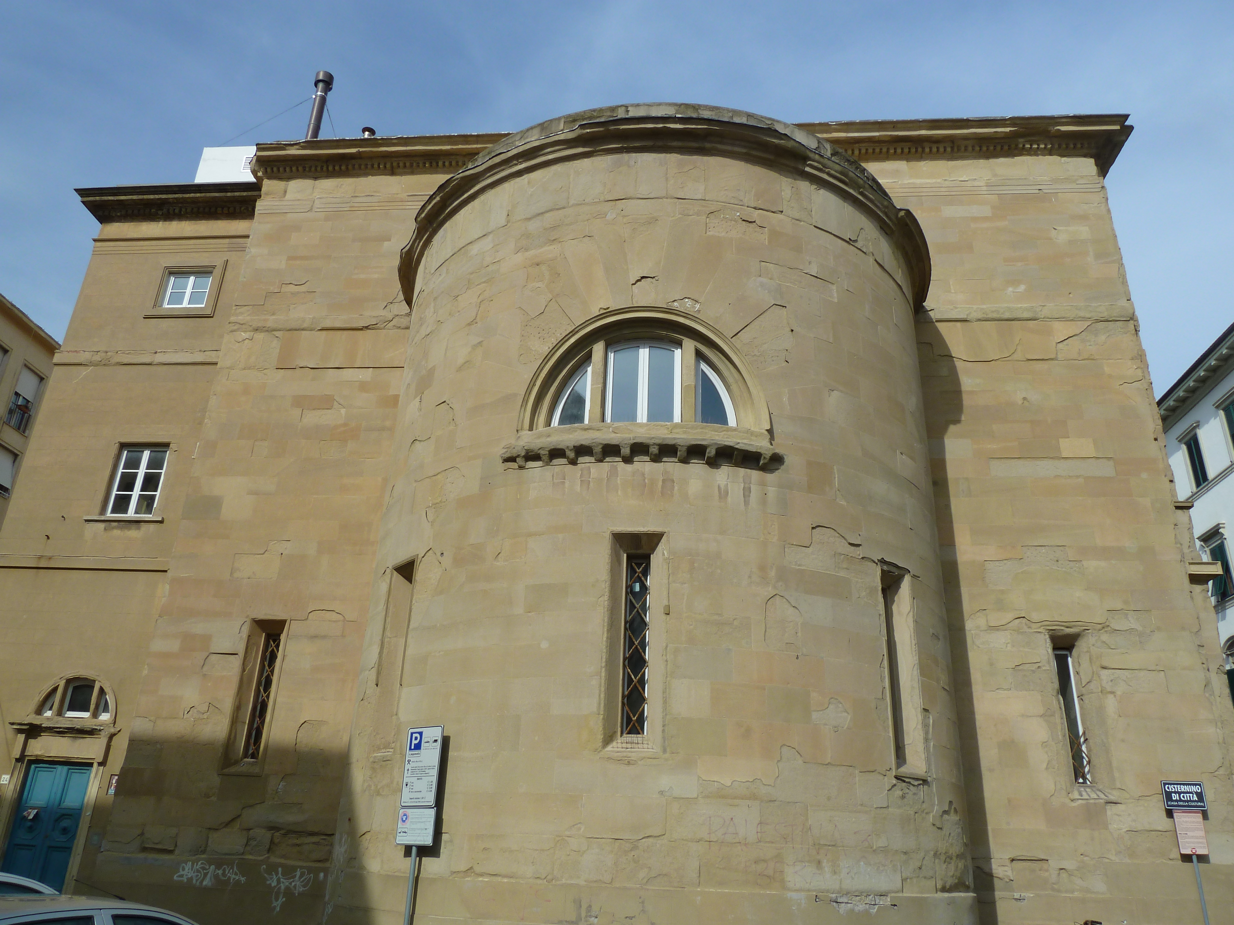 Livorno Cisternino di Citta